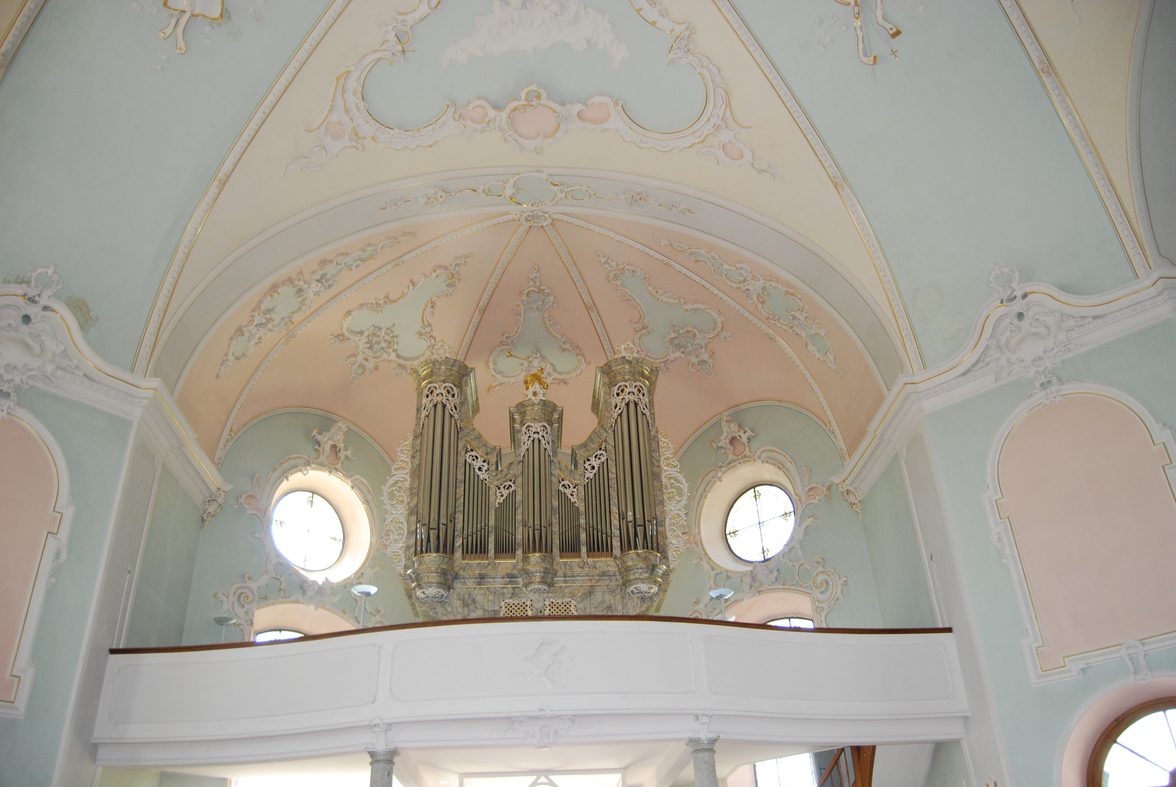 Catholic church of Niedergösgen, canton of Solothurn, SwitzerlandEsperanto: Katolika preĝejo de Niedergösgen, Kantono Soloturno, Svislando